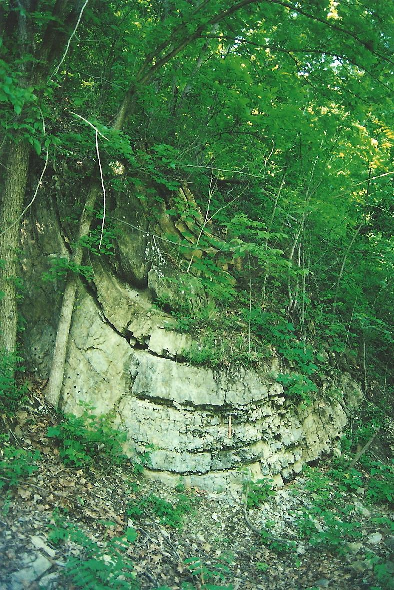 Synclinal fold in Silurian Wills Creek Formation or Bloomsburg Formation along Western Maryland Railway cut at Roundtop Hill (Maryland), southwest of Hancock, Maryland